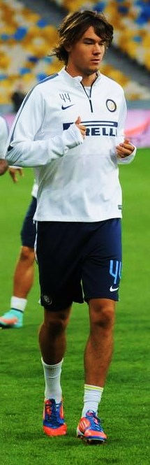 Rene Krhin